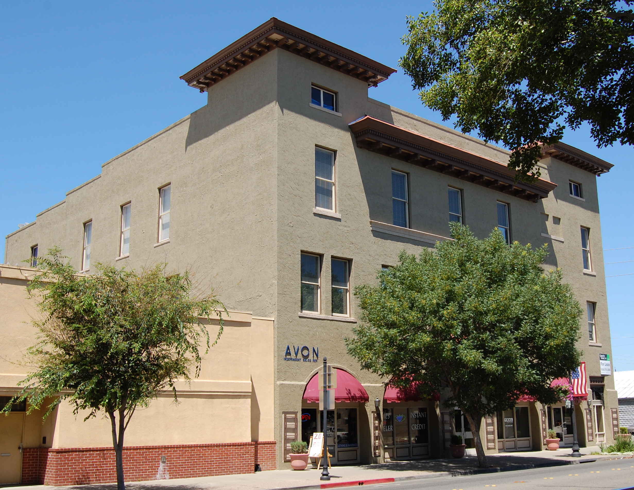 The I.O.O.F. building in Woodland, California. This building is listed on the National Register of Historic Places. The exterior has been updated but close inspection reveals the historic structure underneath.